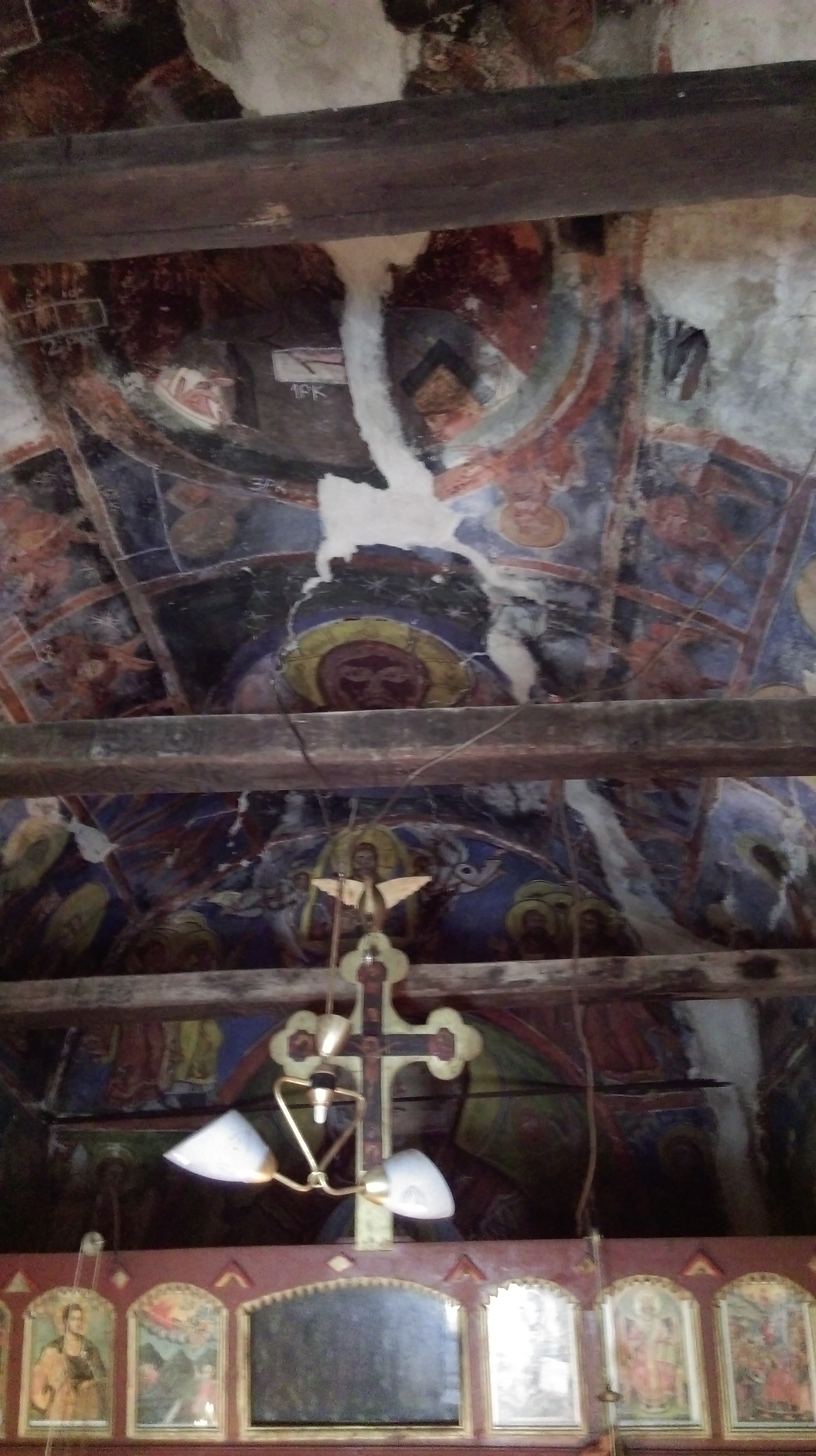 Saint Elijah Monastery (Grnčari)